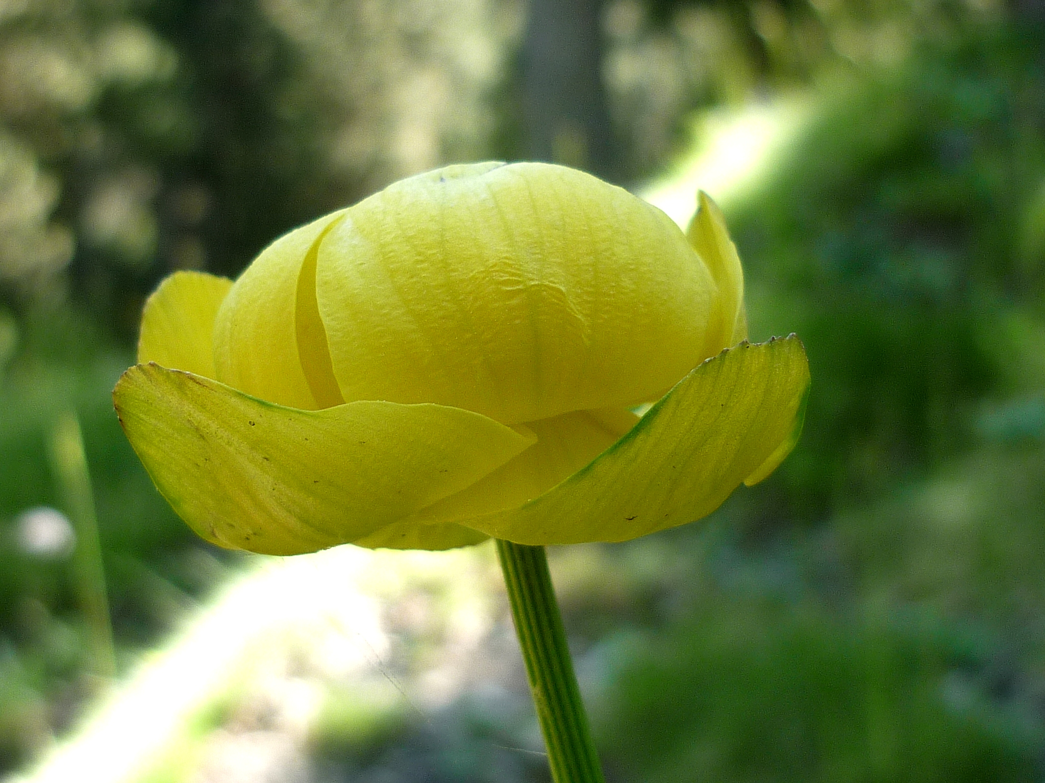 Trollius europaeus. In the Cadinell (Josa i Tuixèn-Alt Urgell-Catalunya). To 1.900 m. altitude.